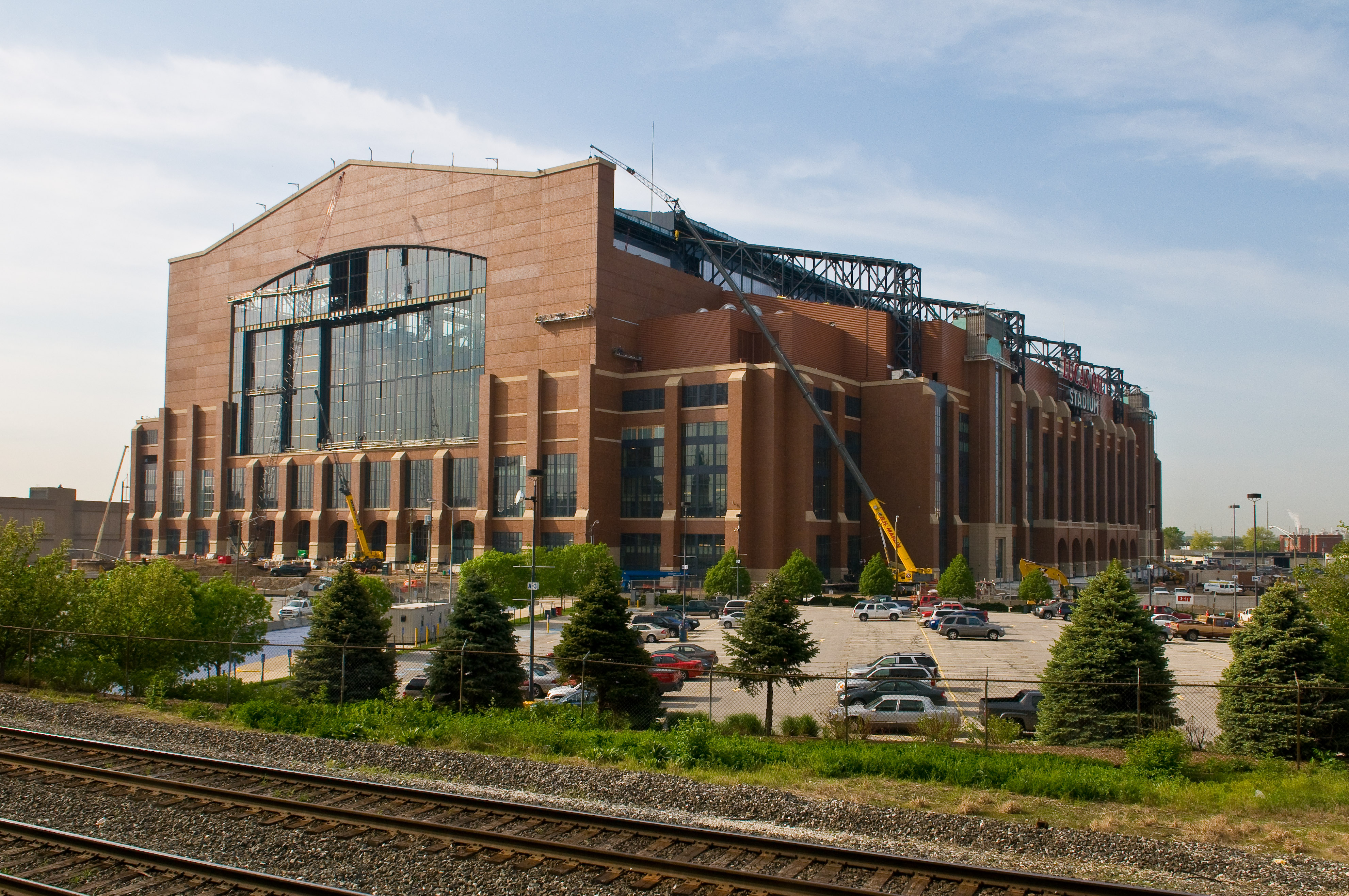 North side of Lucas Oil Stadium under construction.